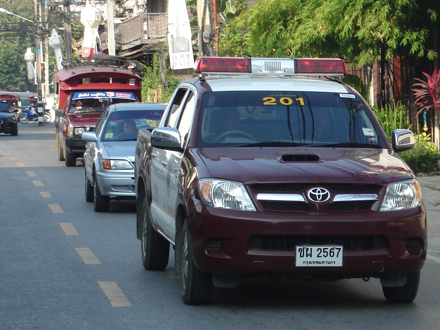 Police car (รถตำรวจ)-- Chiang Mai, Thailand